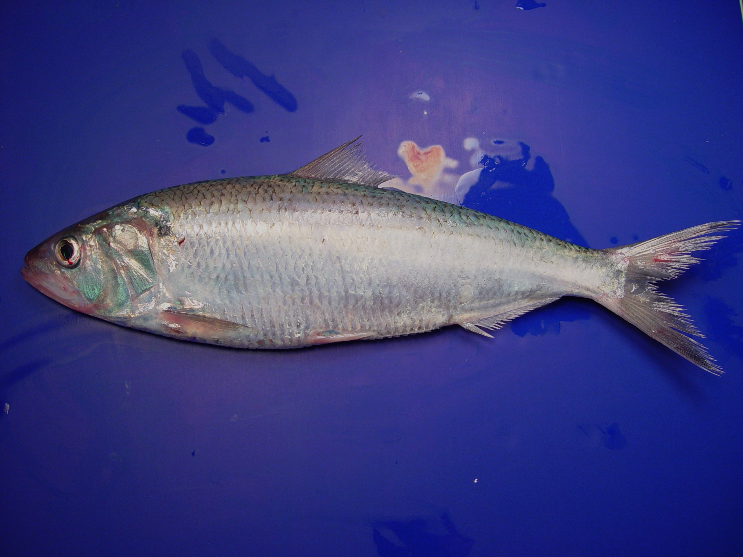 Hickory shad ( Alosa mediocris). Gulf of Mexico.